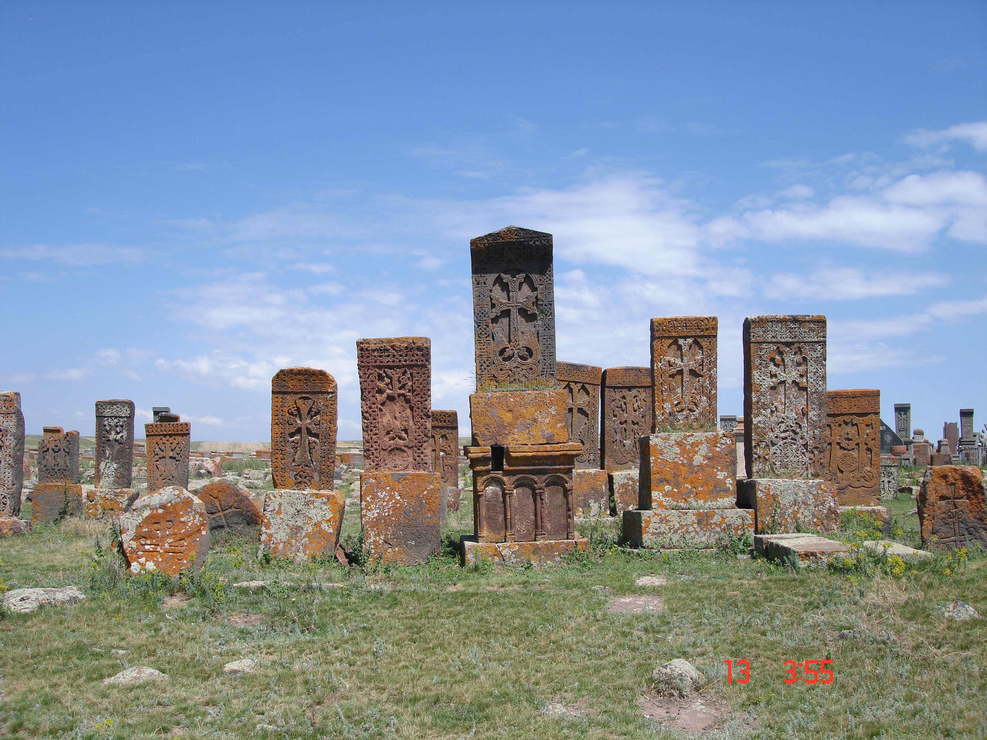 Noratus, Armenia